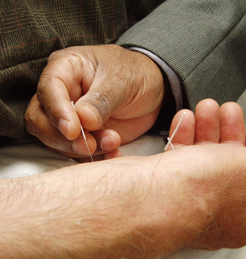 Basic Acupuncture.